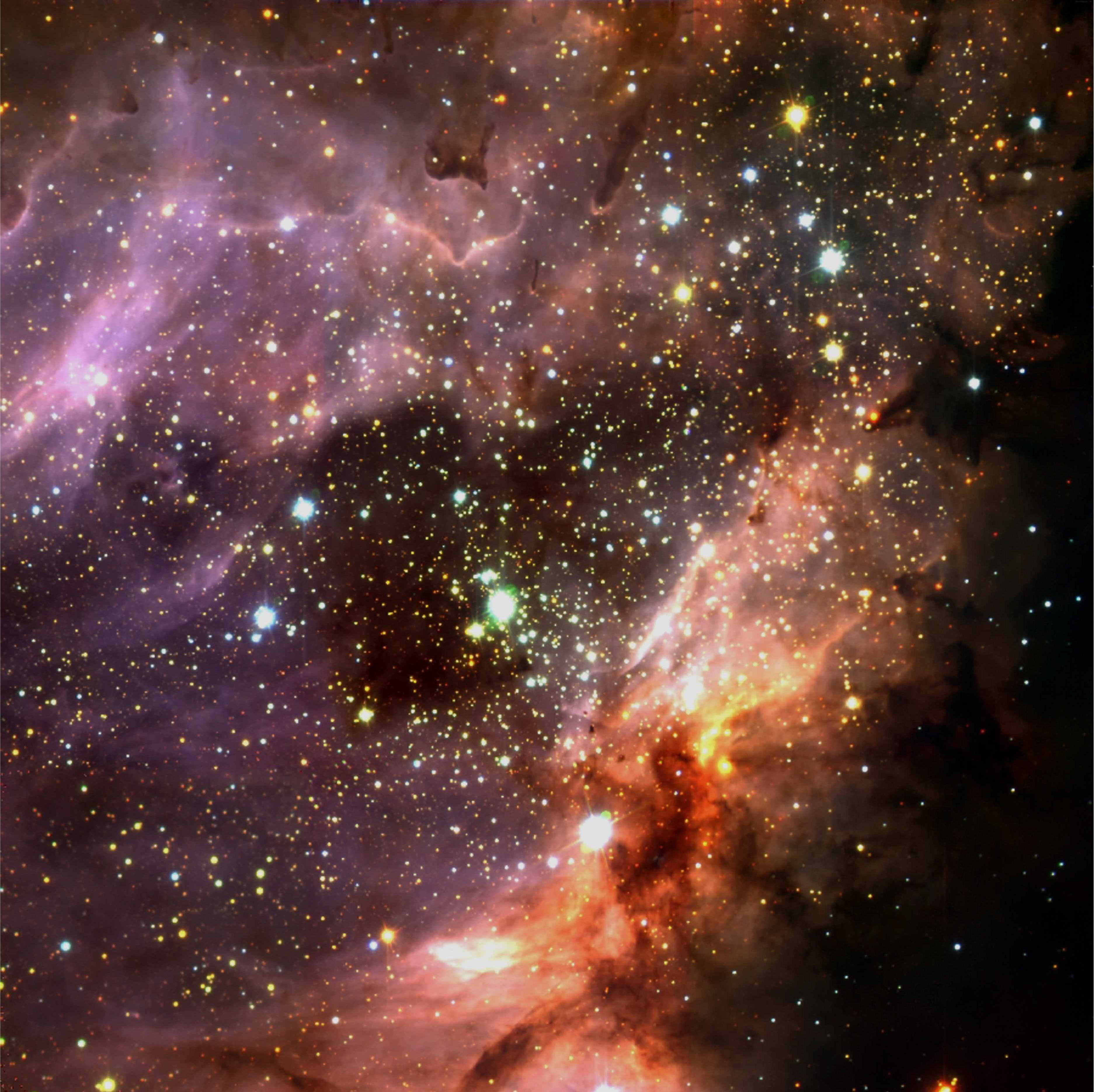 Three-colour composite of the sky region of M 17, a H II region excited by a cluster of young, hot stars. A large silhouette disc has been found to the south-west of the cluster centre. The present image was obtained with the ISAAC near-infrared instrument at the 8.2-m VLT ANTU telescope at Paranal.